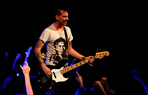 Pittsburgh-based punk band Anti-Flag performing live @ Impérial de Québec, Québec City on September 12, 2008.